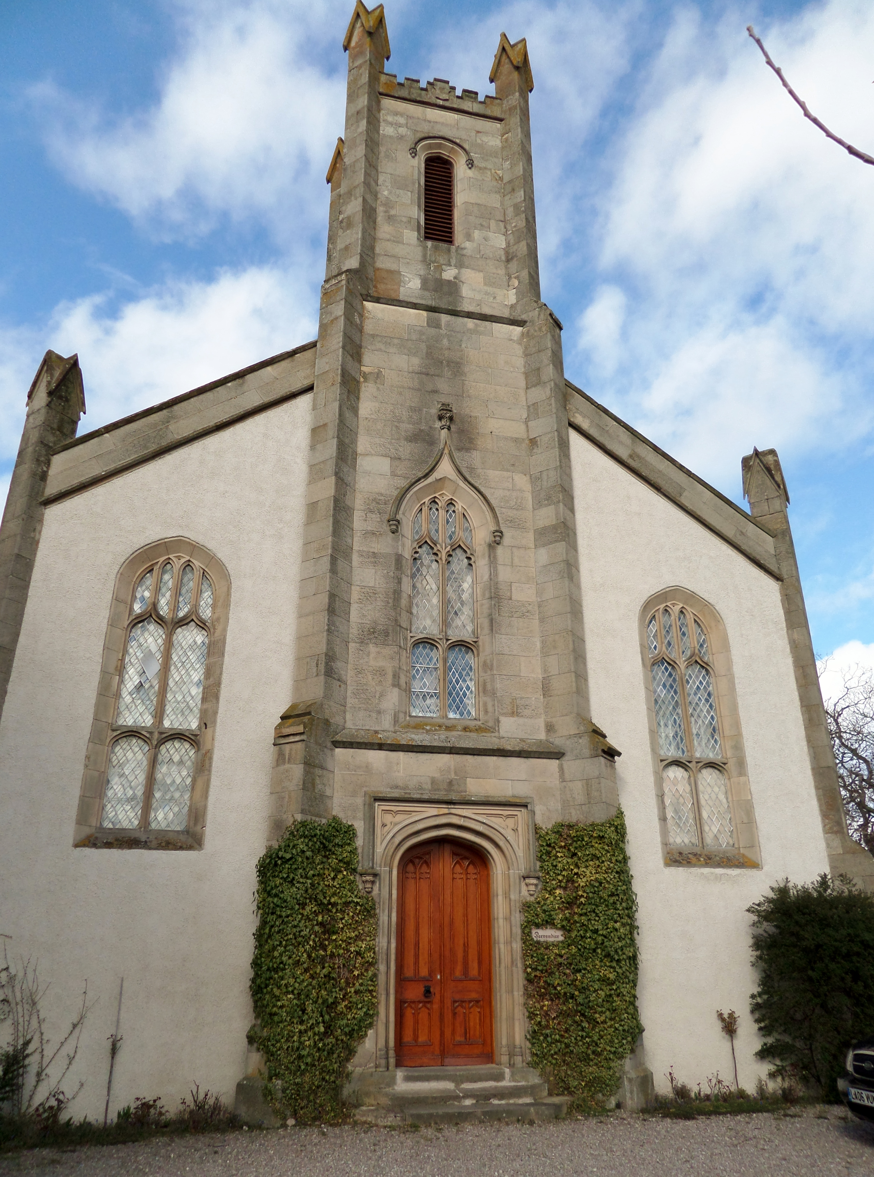 The old Urquhart Church, Moray, Scotland. A private dwelling in 2015.